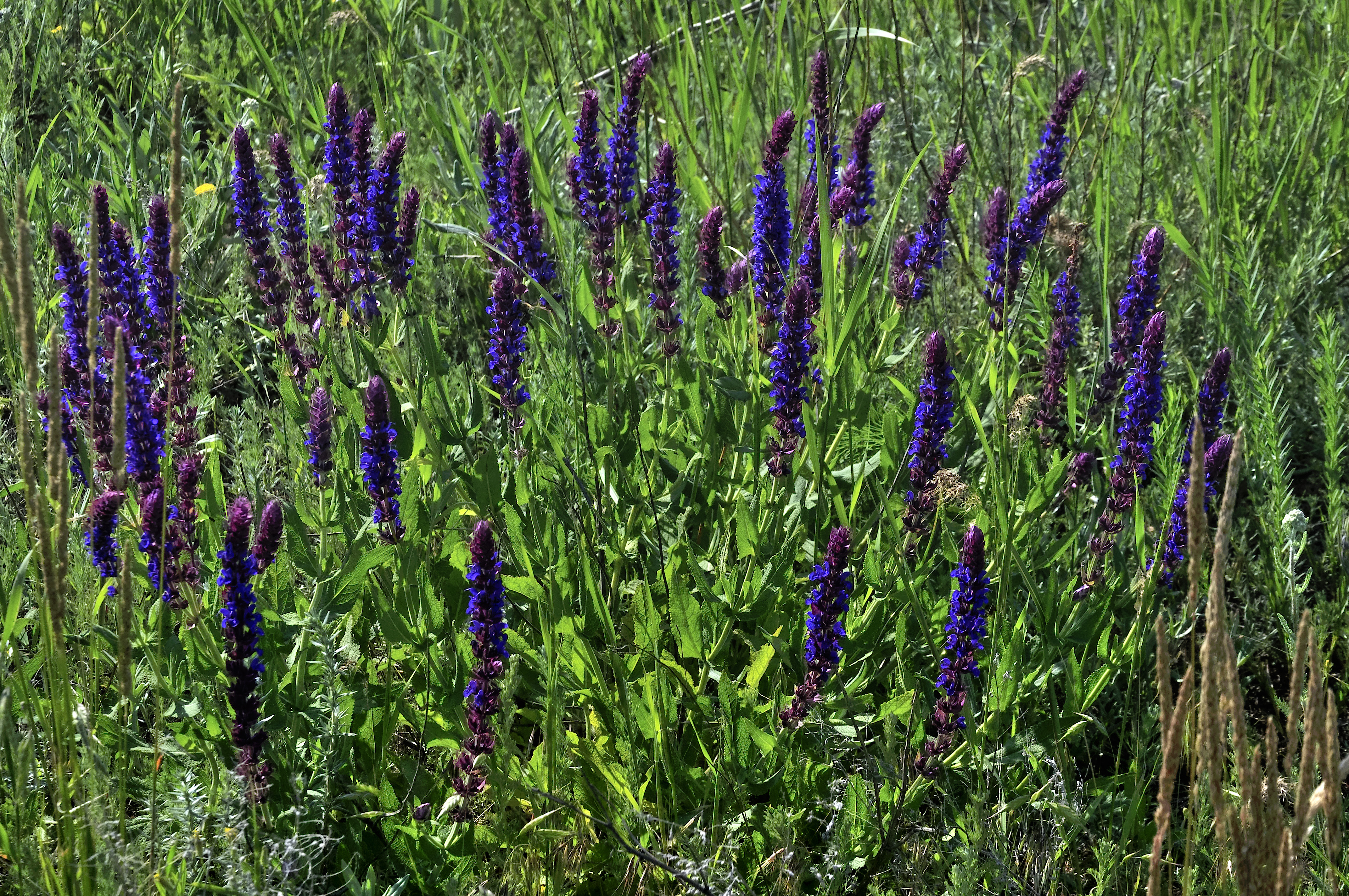 Salvia dry-steppe